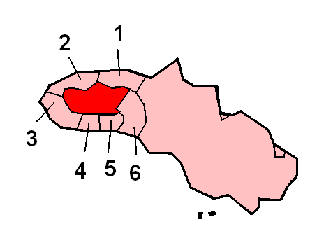 Map of the area of the Wejewa language, between other language areas of Sumba Island, Indonesia.